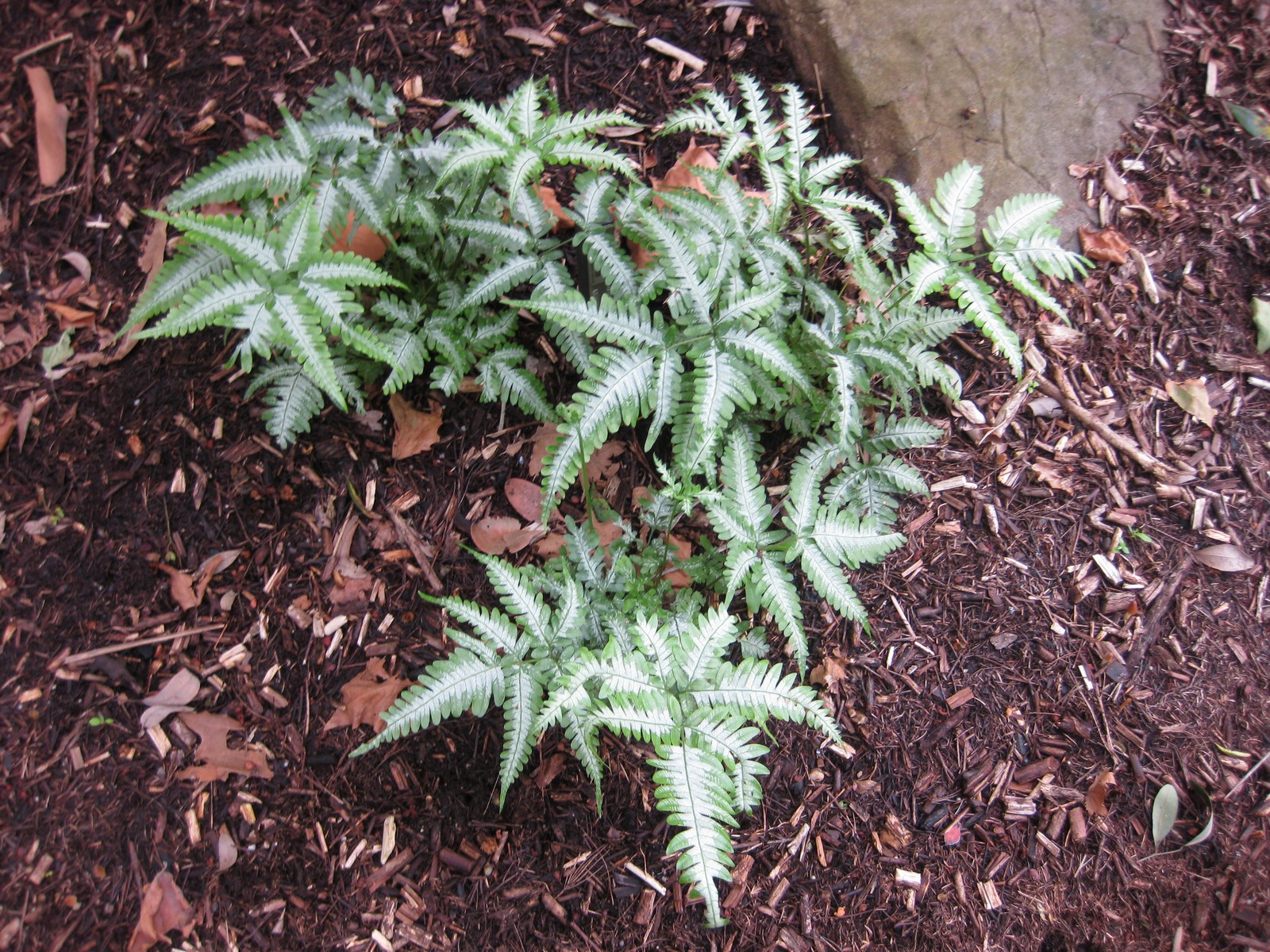 Photographed at the Royal Botanic Gardens Sydney (Australia) in January